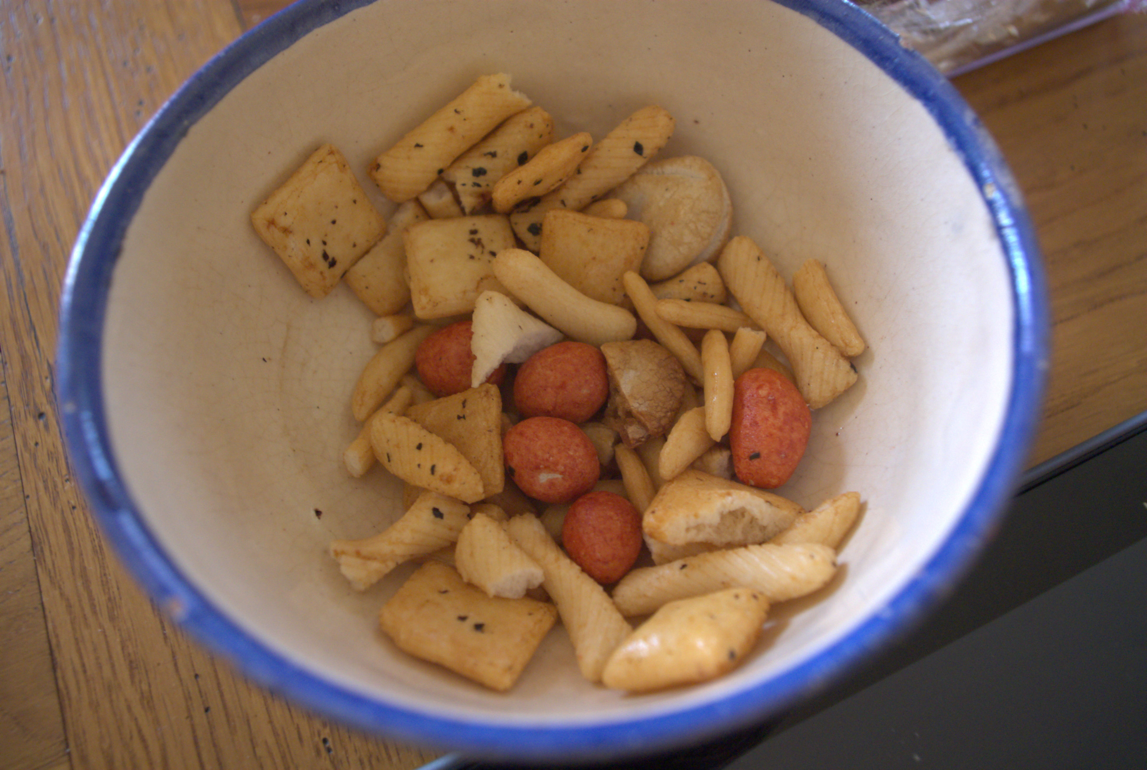 Crackers japonais dans un bol